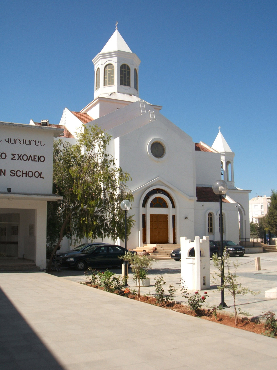 Sourp Asdvadzadzin church in Nicosia